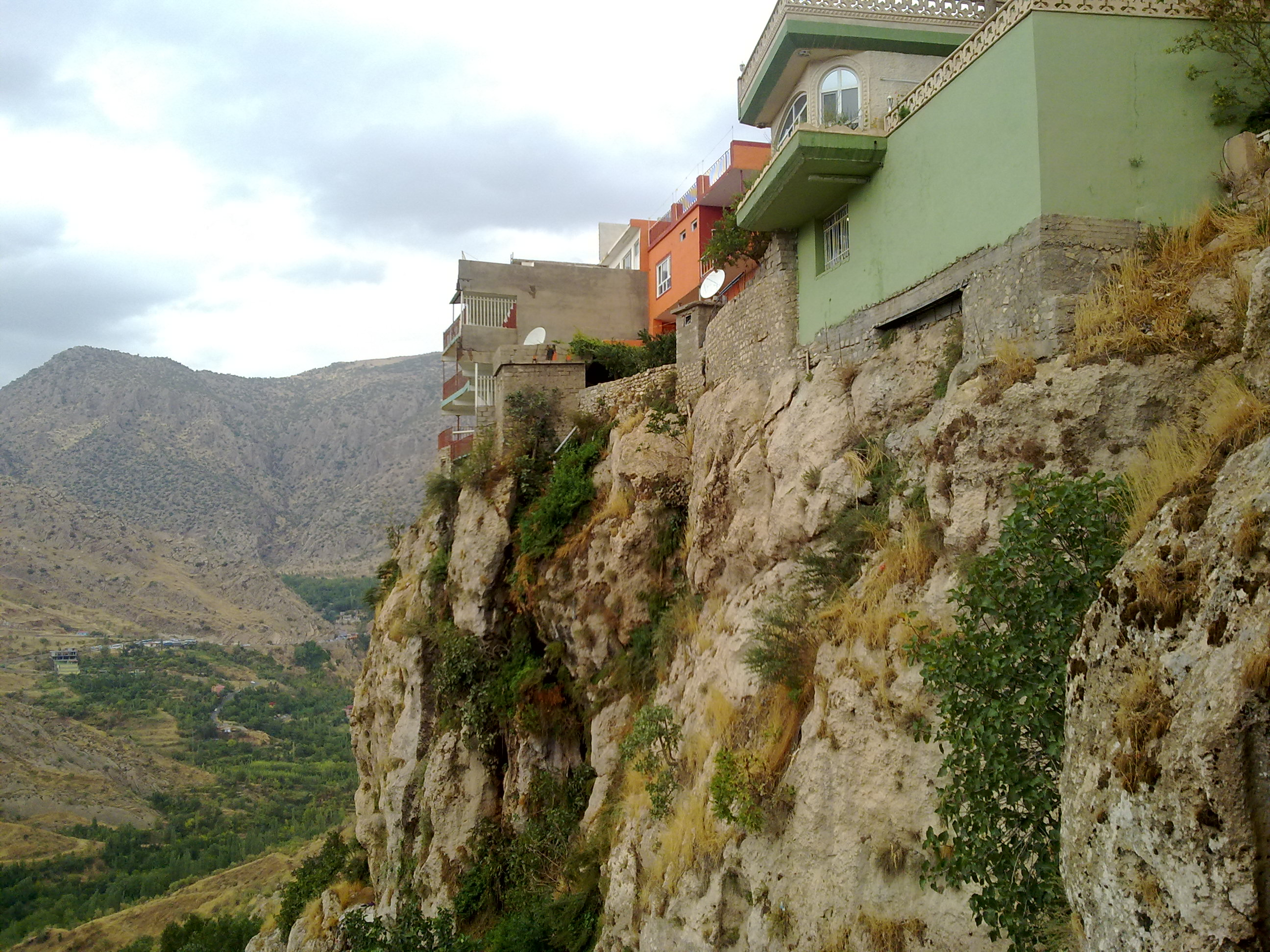 Amedi city. Picture taken from Badinan gate, down the city.